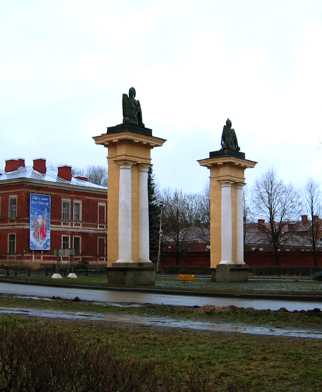 Ingerburg gates and Red quarters in Gatchina